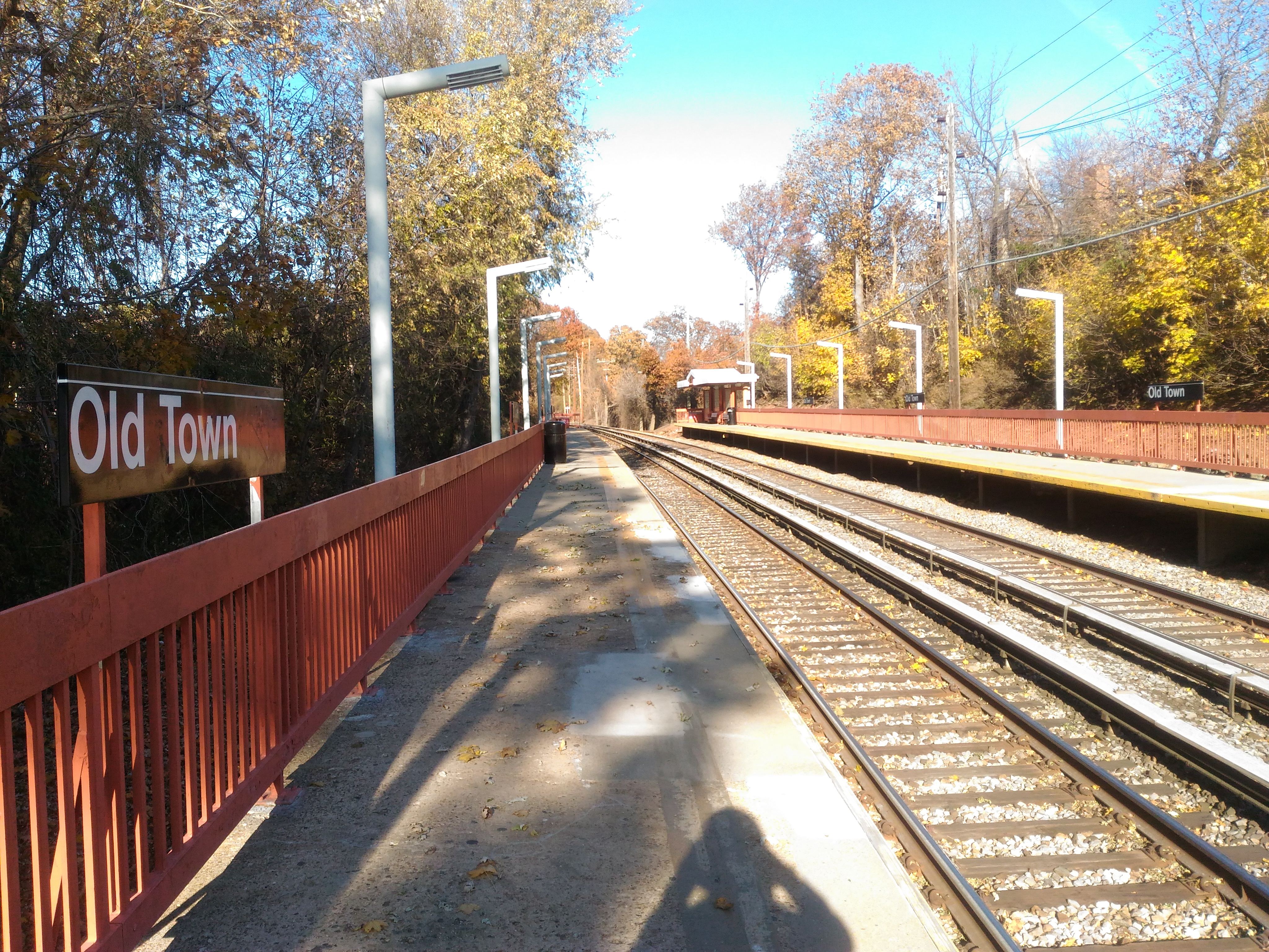 Both platforms of the Staten Island Railway "Old Town" Station, facing north.